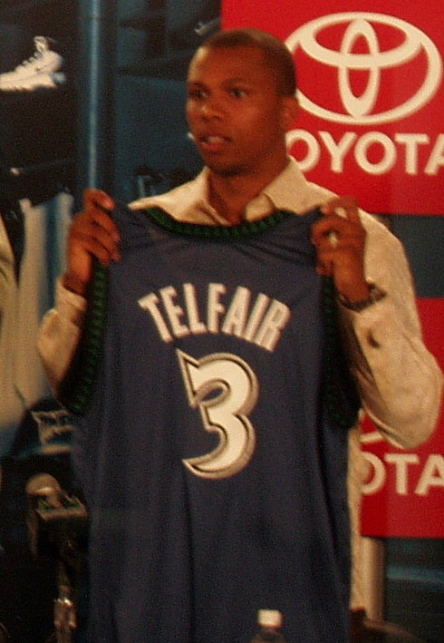 Sebastian Telfair, who was traded from the Boston Celtics to the Minnesota Timberwolves along with Theo Ratliff, Al Jefferson, Gerald Green, Ryan Gomes in exchange for Kevin Garnett, is presented to the Minneapolis media.